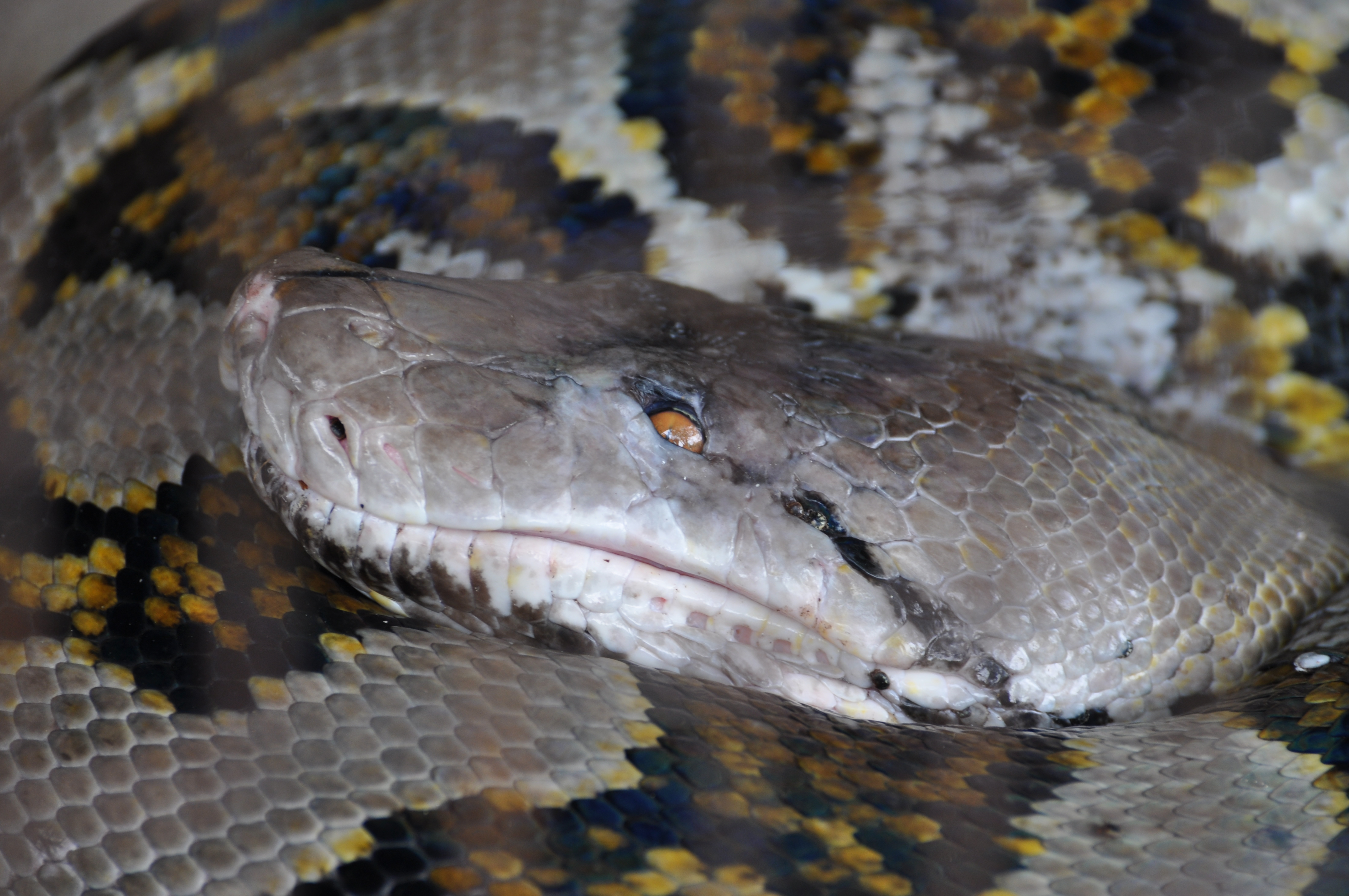 The evil one- although this picture is heavily zoomed, this frighteningly close view is of the head of a gargantuan Reticulated Python in the Penang Bird Sanctuary. Apparently just eaten, this chap was tightly coiled up in the centre of his cage and seemed in no hurry to get anywhere anytime soon. Retics, or Python reticulatus, also known as the (Asiatic) reticulated python is a species of python found in Southeast Asia. Adults can grow to 6.95 m (22.8 ft) in length but normally grow to an average of 3–6 m (10–20 ft). They are the world's longest snakes and longest reptile, but are not the most heavily built. Like all pythons, they are nonvenomous constrictors and normally not considered dangerous to humans. Although large specimens are powerful enough to kill an adult human, attacks are only occasionally reported.An excellent swimmer, retics has been reported far out at sea and have colonised many small islands within their range. The specific name, reticulatus, is Latin meaning "net-like", or reticulated, and is a reference to the complex color pattern. The feed on rodents, birds and small mammals which they swallow head first after first squeezing them to death. At this size however, they can and do kill and swallow large animals like antelope, goats and deer. (Butterworth, Penang, Nov. 2013)